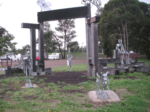 sculptures at the entrance to the Fairfield City Showground on Smithfield Road, Prairiewood, NSW